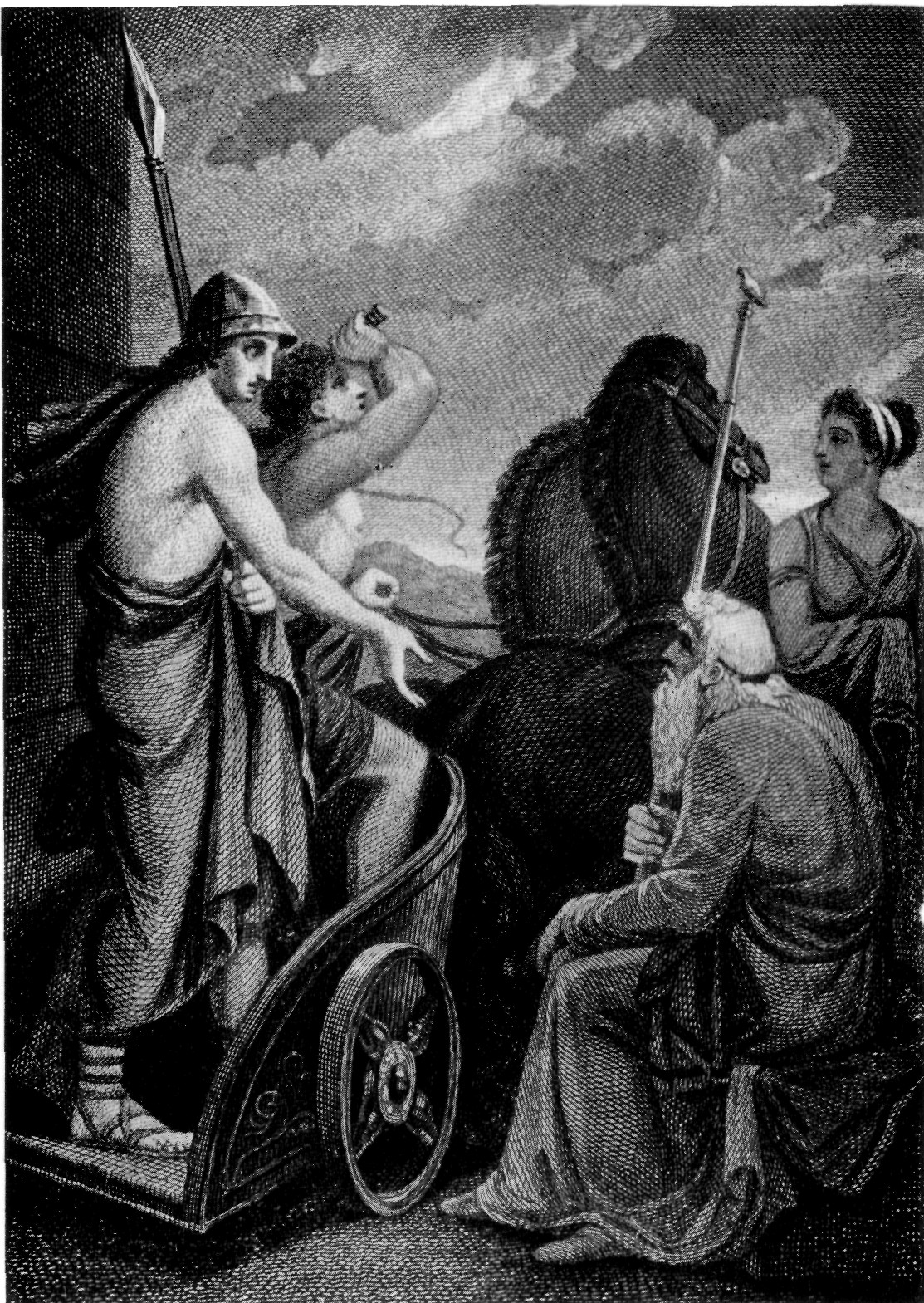 Telemachus departing from Nestor